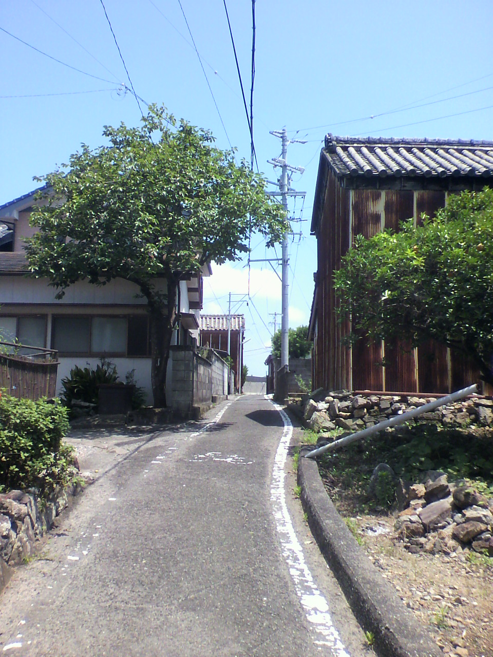 This is a photo of Anagawa,Isobe Town,Shima City,Japan.